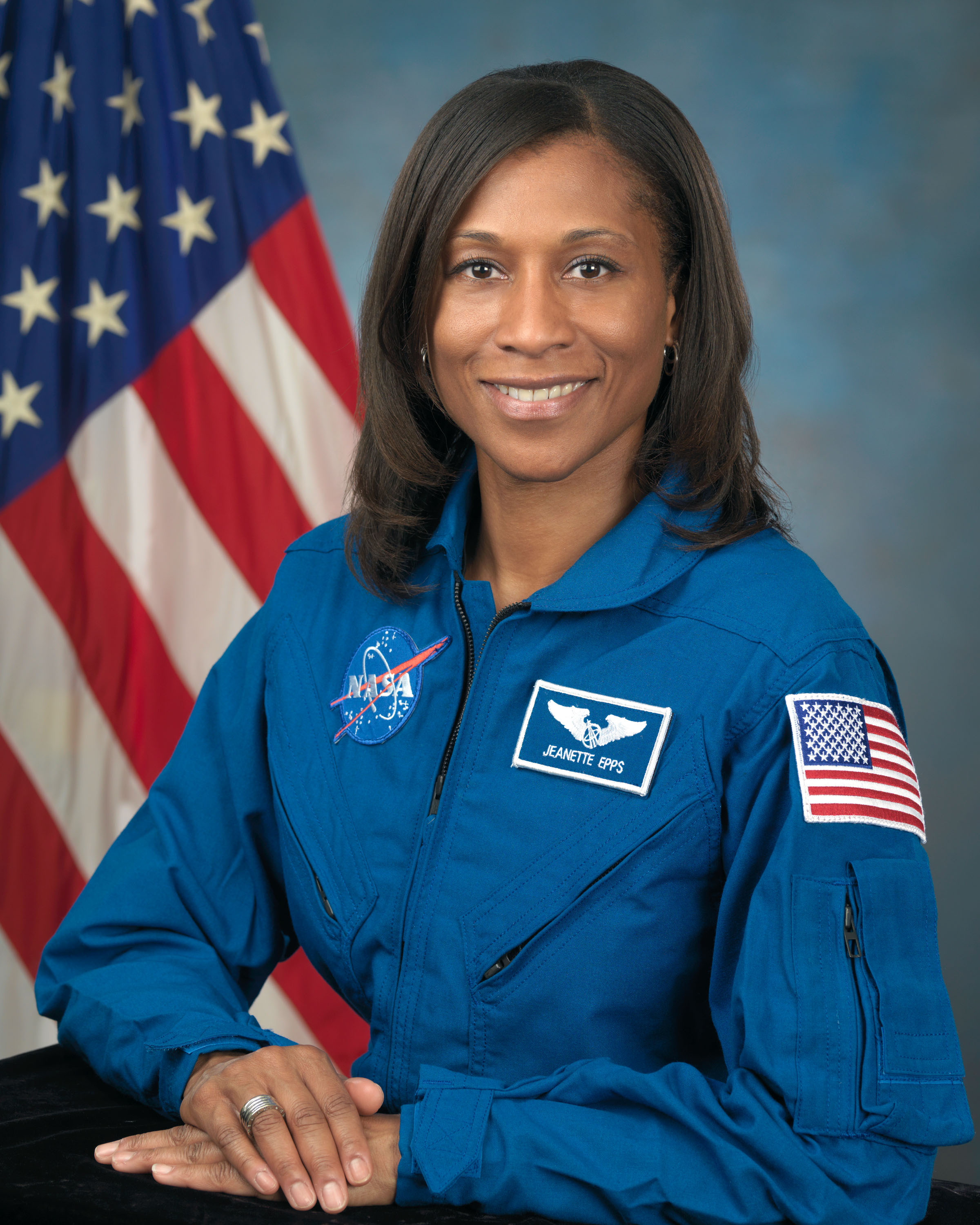 NASA Astronaut Jeanette J. Epps